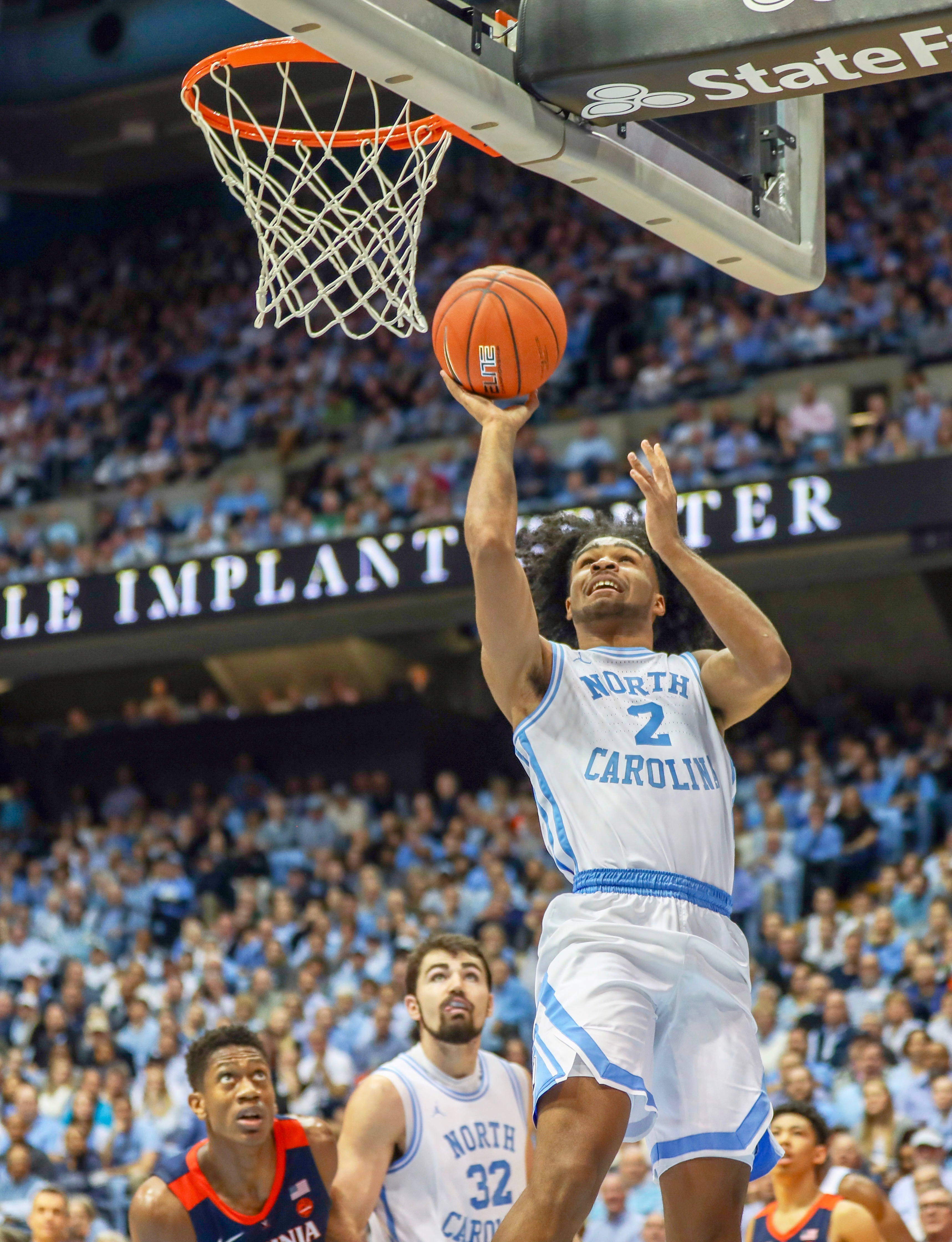 Coby White goes up for a lay-up.